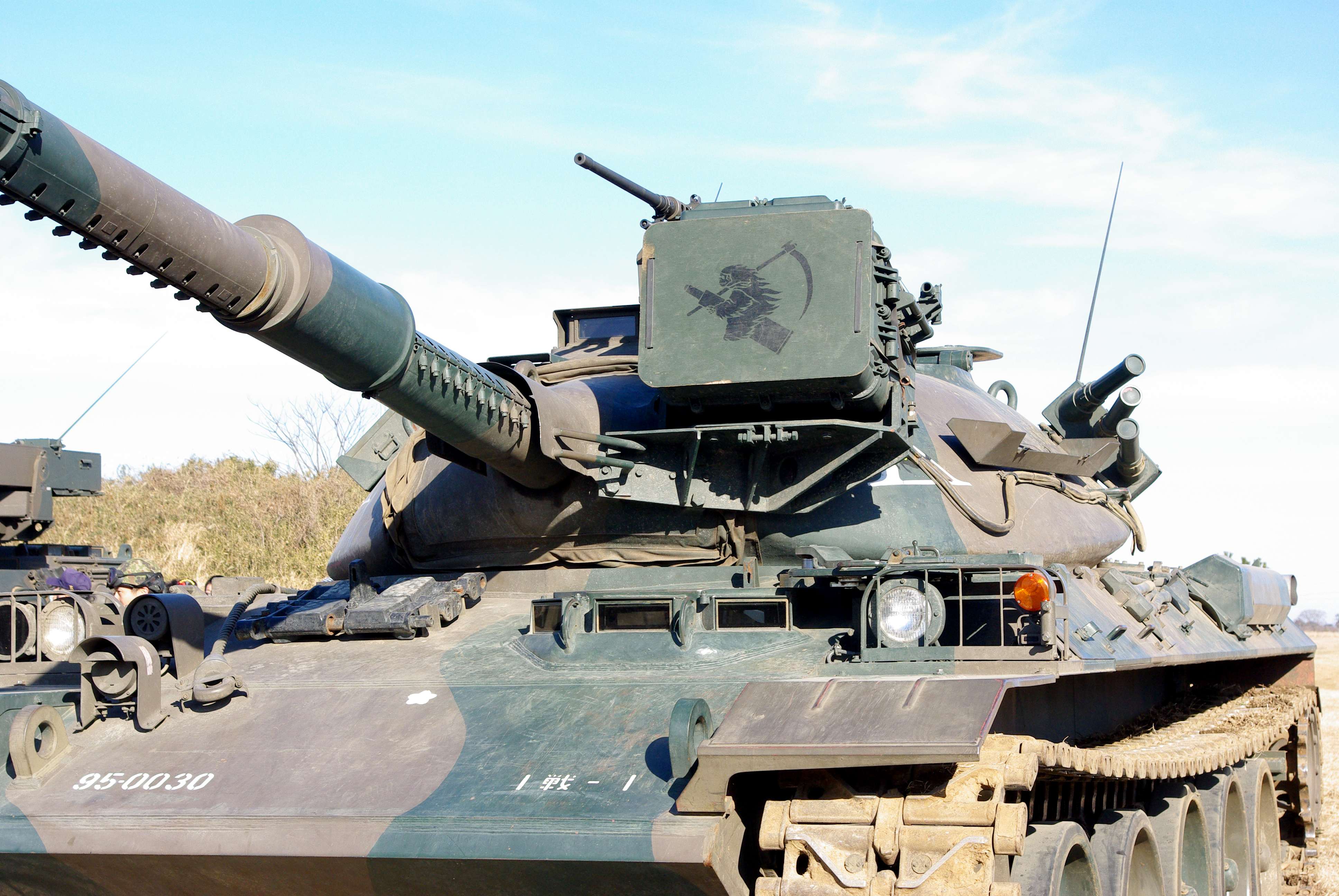 JGSDF Type74 Tank,1st Tank Btn..Taken by Los688,in Narashino,Japan,at 08-Jan-2012,JGSDF 1st Airborne Brigade 2012 first drop manuver.PD-self ja:74式戦車 2012年01月08日、第1戦車大隊。習志野演習場で撮影。